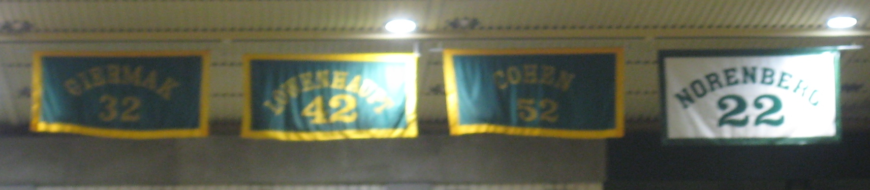 Some of the hanging retired jerseys at The College of William & Mary in Williamsburg, Virginia, USA.